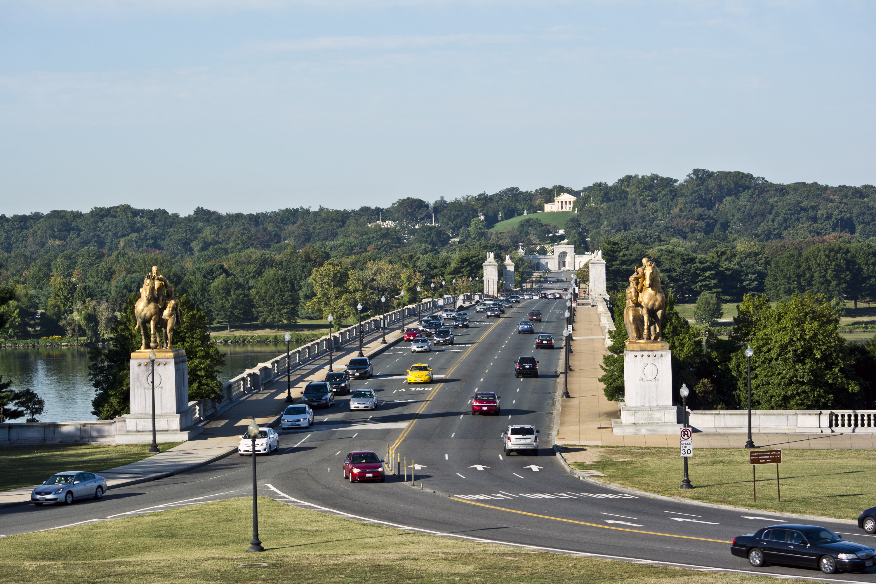 Arlington Memorial Bridge and Arts of War - 2013-09-30